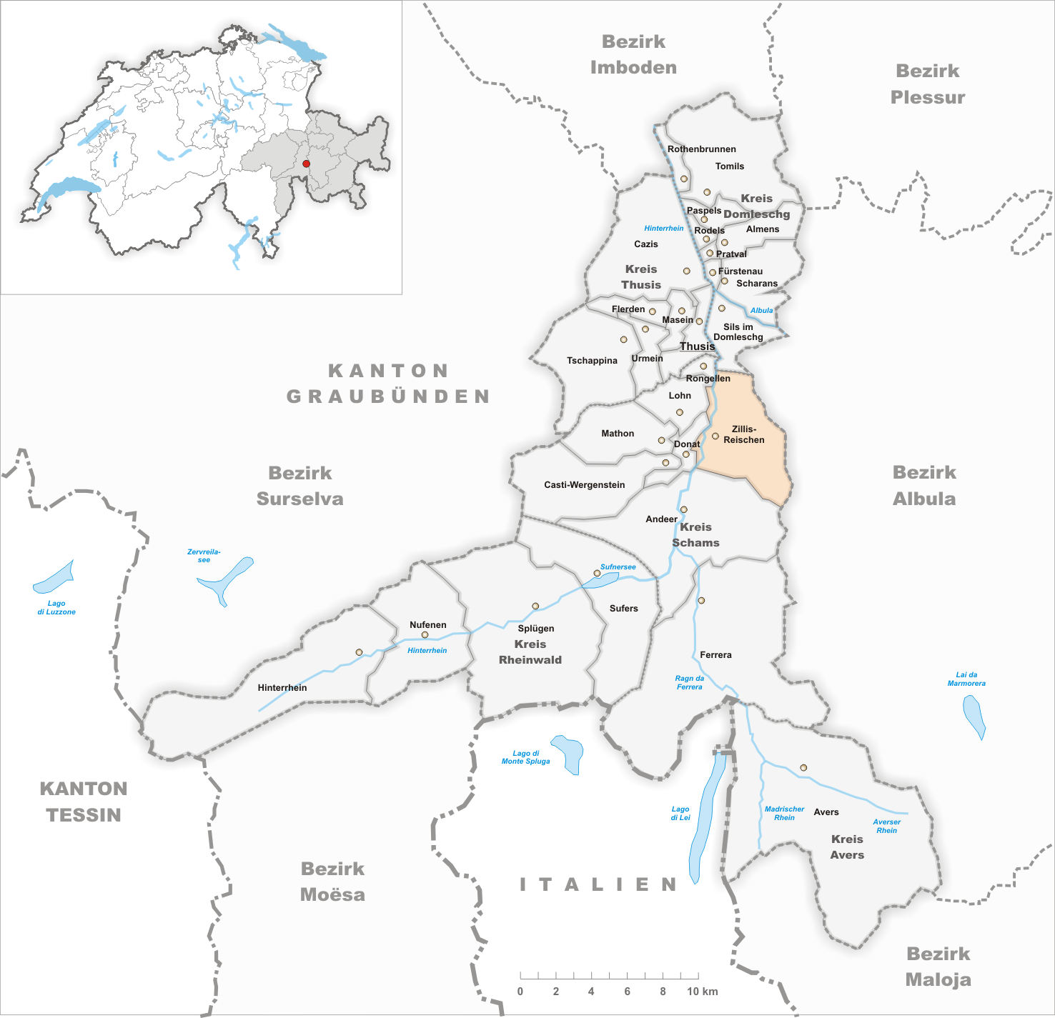 Municipality Zillis-Reischen